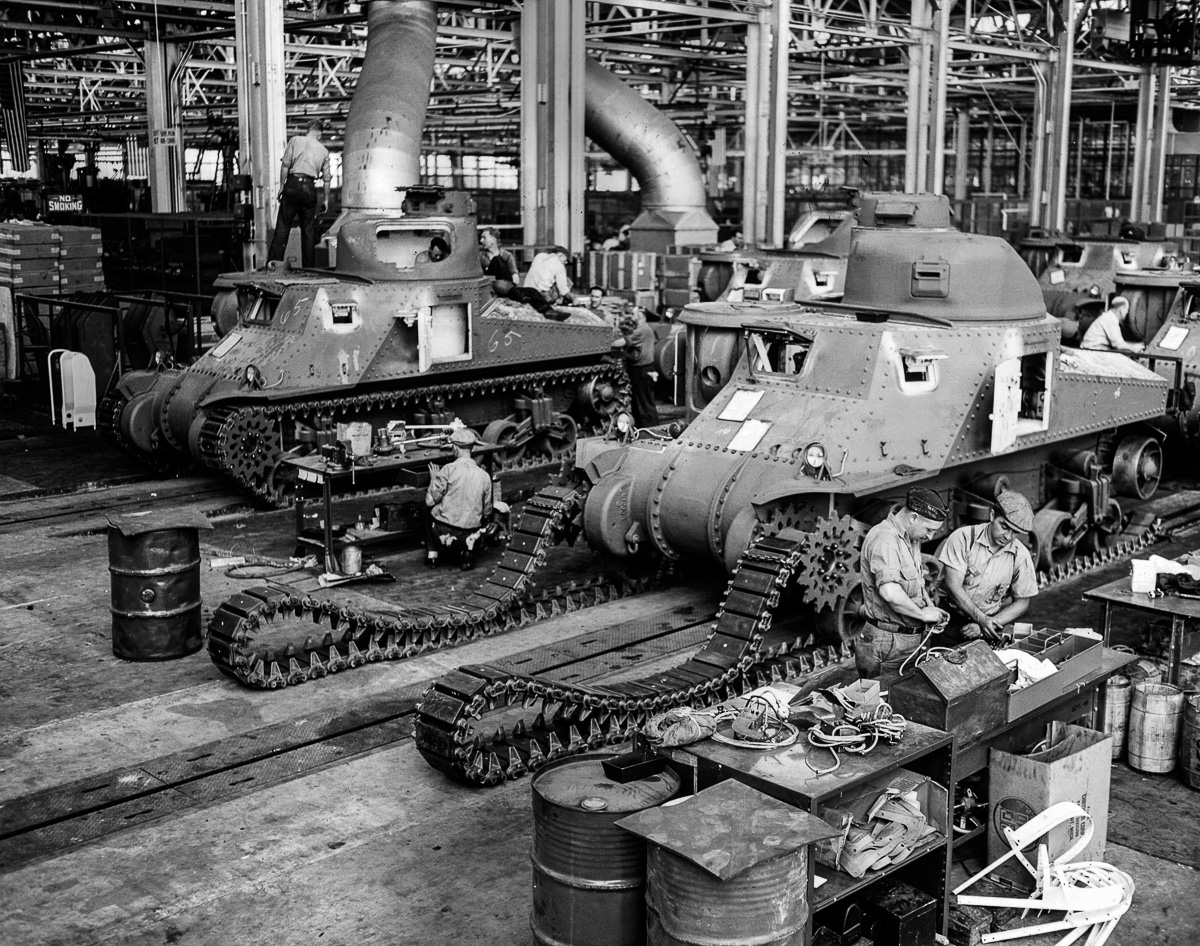 Workers in the huge tank Chrysler arsenal near Detroit, putting the tracks on one of the giant M-3 tanks. These rolling arsenals weigh twenty-eight tons, are capable of speeds over twenty-five miles an hour and are equipped with 75 mm. field artillery gun and a 37 mm. anti-aircraft gun, as well as four mounted machine guns and various unmounted arms its crew may carry. The tanks are powered by 400 horsepower Wright Whirlwind aviation engines.